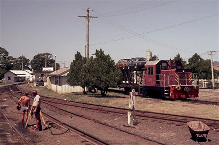 Rail Tractor X217 shunts the Motorail vehicle at Murwillumbah